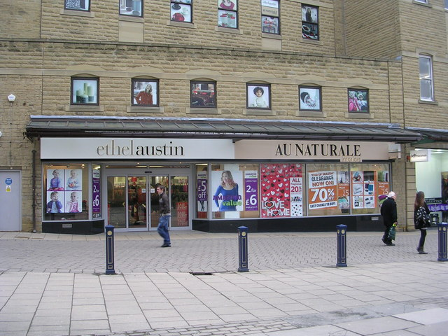 ethelaustin/Au Naturale - Victoria Lane These two companies have recently gone into administration for a second time.